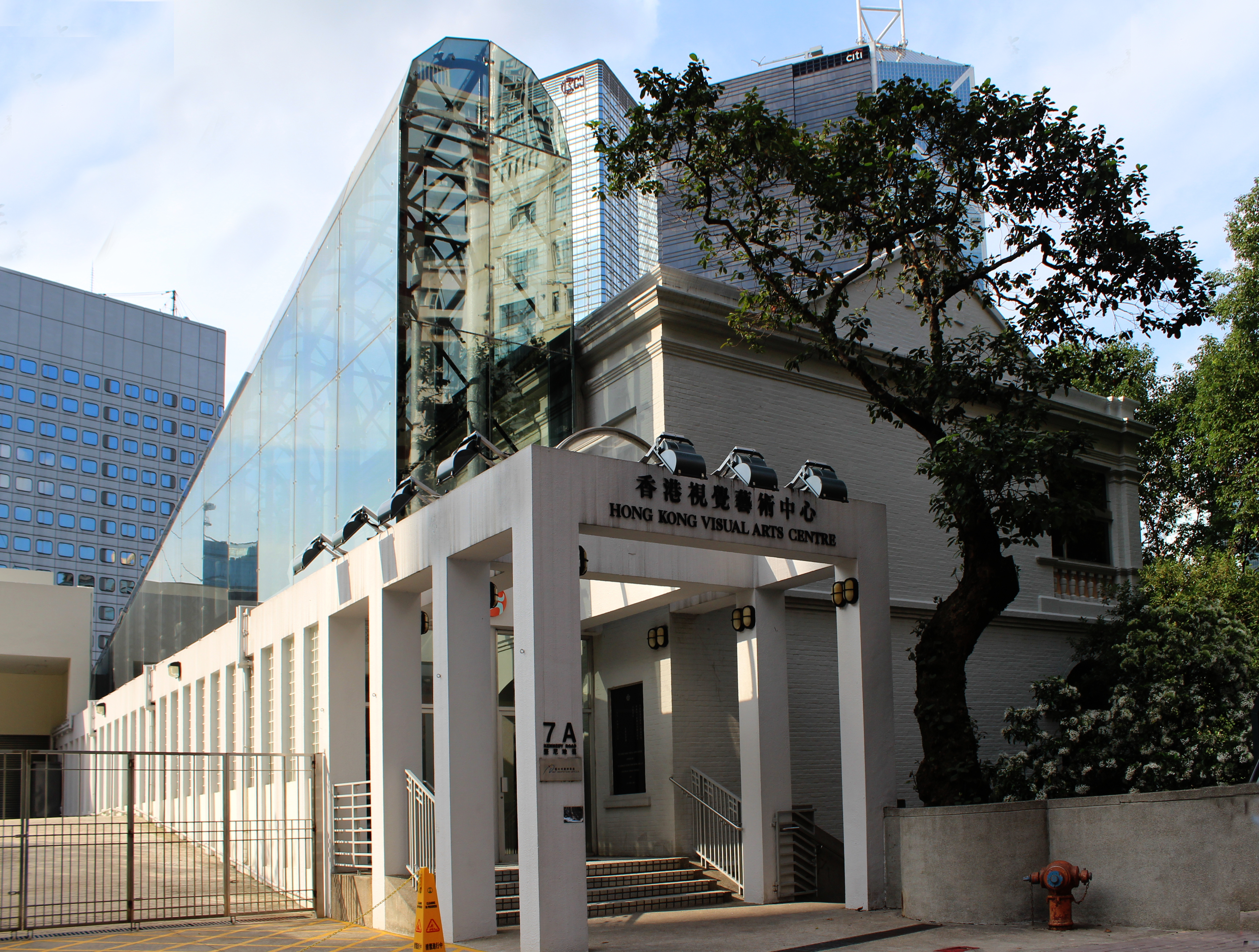 Front view of Hong Kong Visual Arts Centre